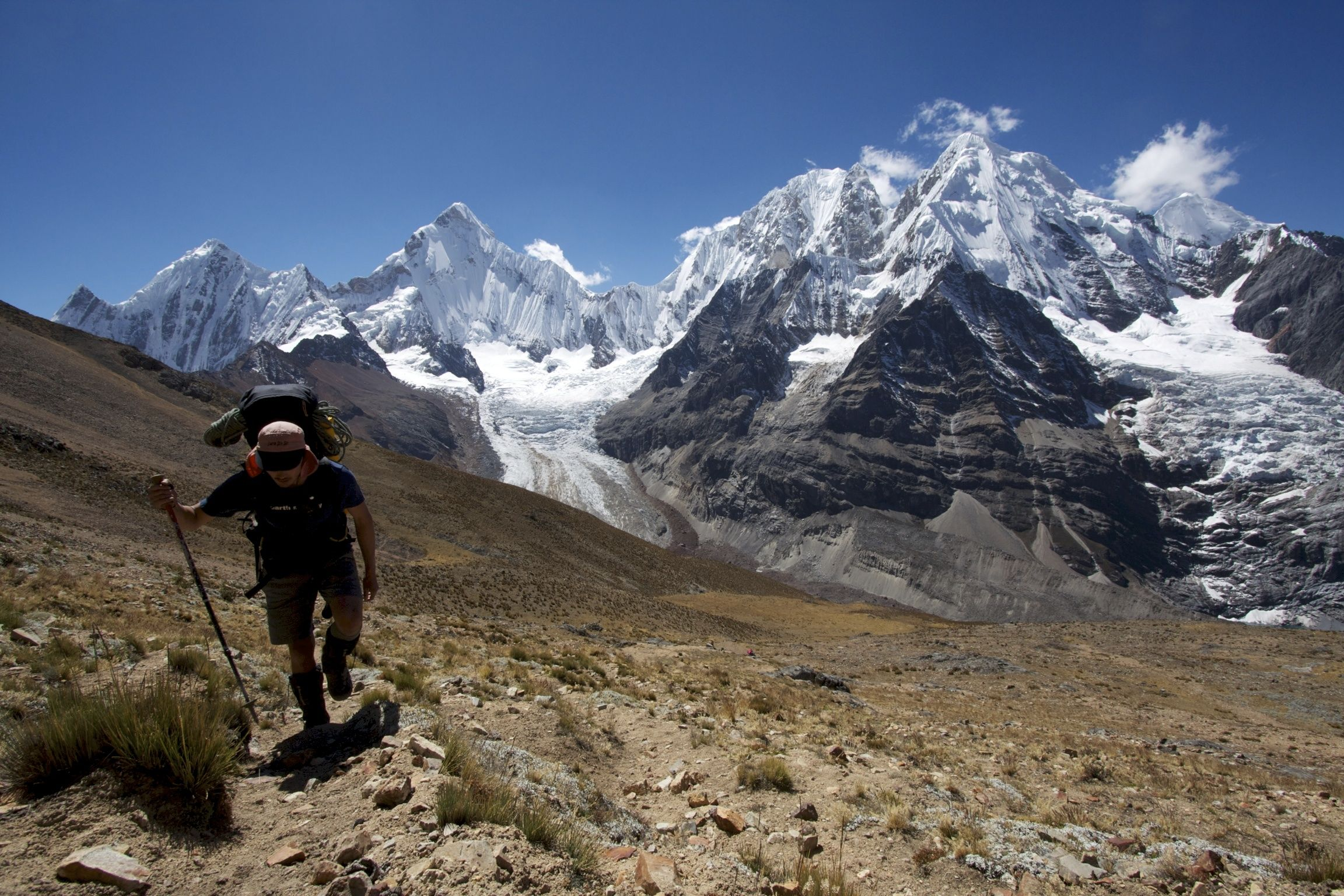 Hiking the Alpine Circuit in the Cordillera Huayhuash of Peru. In the background are (L to R) Rasac, Yerupaja, Siula Grande, and Sarapo.